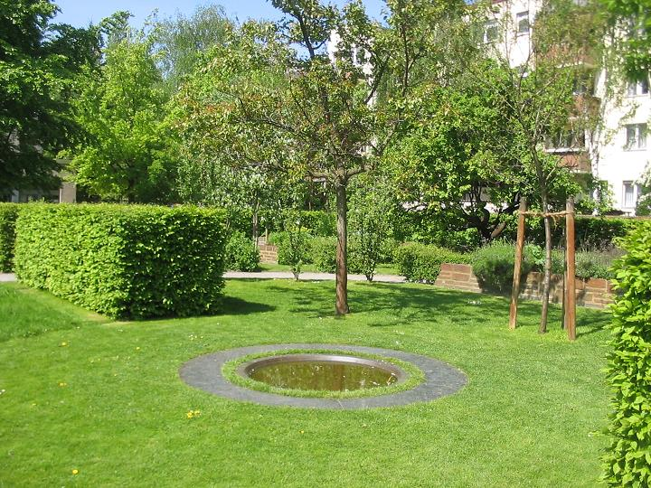 Comenius-Garten nearby the Böhmisches Dorf (Böhmisch-Rixdorf) in Berlin-Neukölln, Germany.